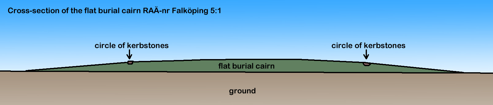 General cross section of a flat burial cairn (RAÄ No Falköping 5:1) in the city block Skytten in Falköping, Falköping Municipality, former Skaraborg County, Västergötland, Västra Götaland County, Sweden. Drawing made by Gunnar Creutz.